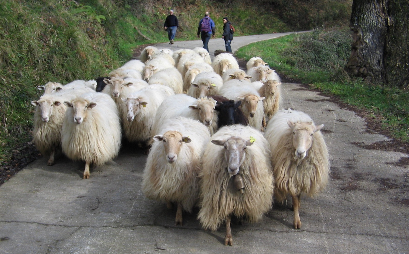 Sheperd and latxa sheep flock down from the mountain meadows in the Basque Country